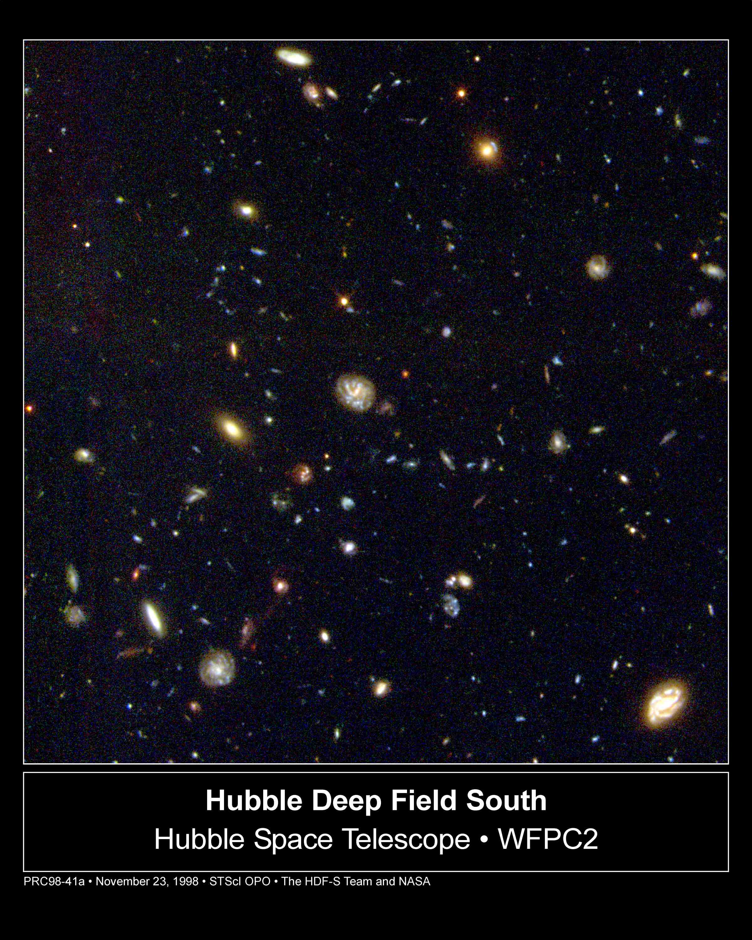 The Hubble Deep Field South. From